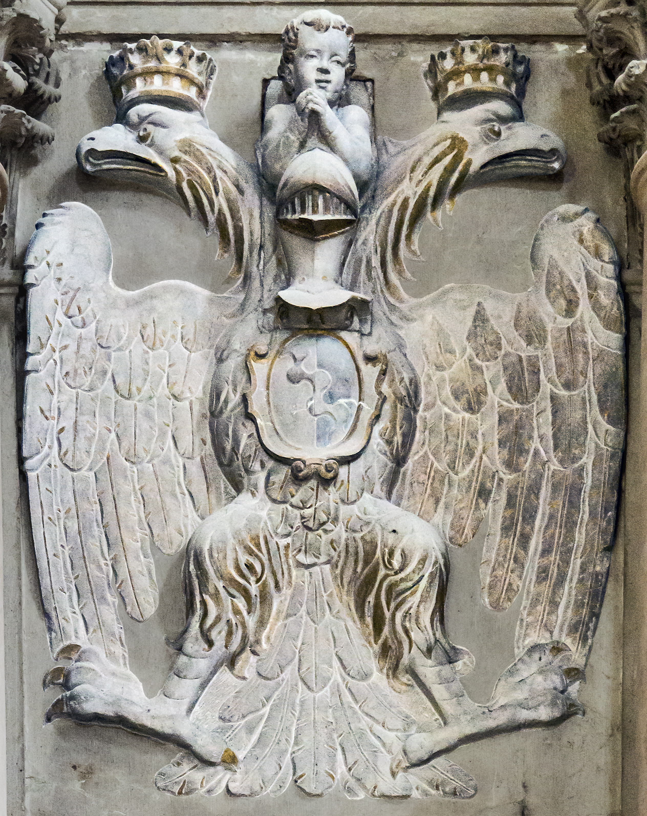 I Gesuiti, Venice Counter-façade - Cost arms of Da Lezze family